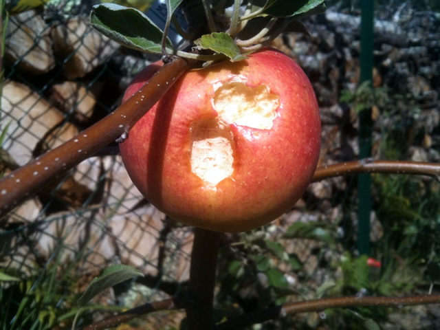 Mairac apple eaten by an jornet